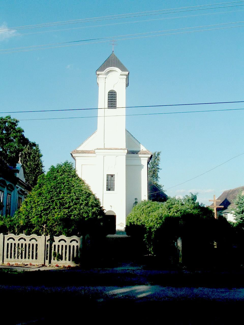 Roman Catholic Church in Simaság. Bűnbánó Magdolna római katolikus templom This is a photo of a monument in Hungary, Identifier: 9317